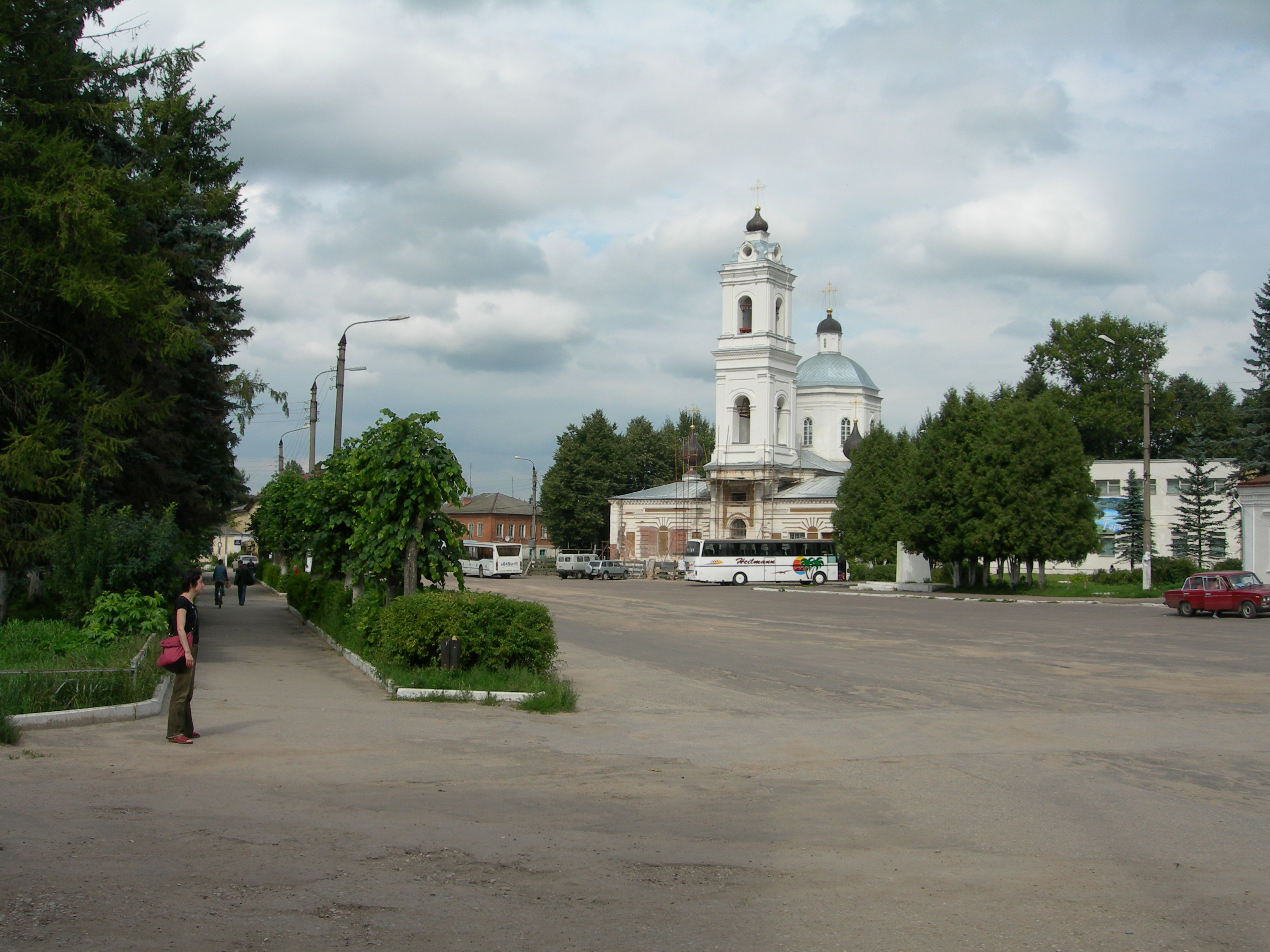 Tarusa, city center, the Oka River is right behind the church